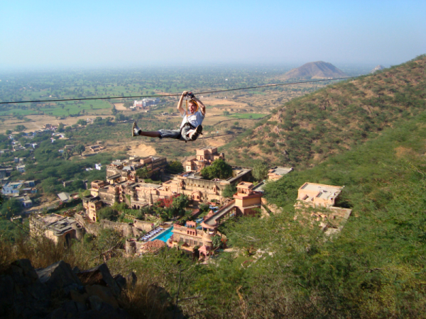 Neemrana